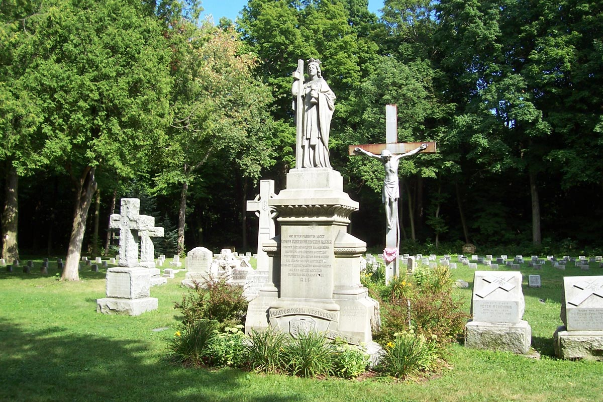 Gravesite of Archbishop Frederick Katzer, located on the grounds of St. Francis Seminary in St. Francis, Wisconsin.